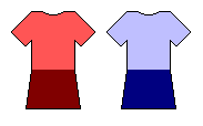 Azumanga Daioh Uniform